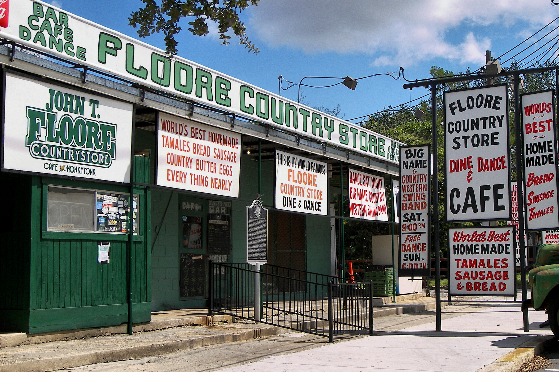 Floore Country Store in Helotes, Texas, United States. The building was listed on the National Register of Historic Places on December 6, 2005.